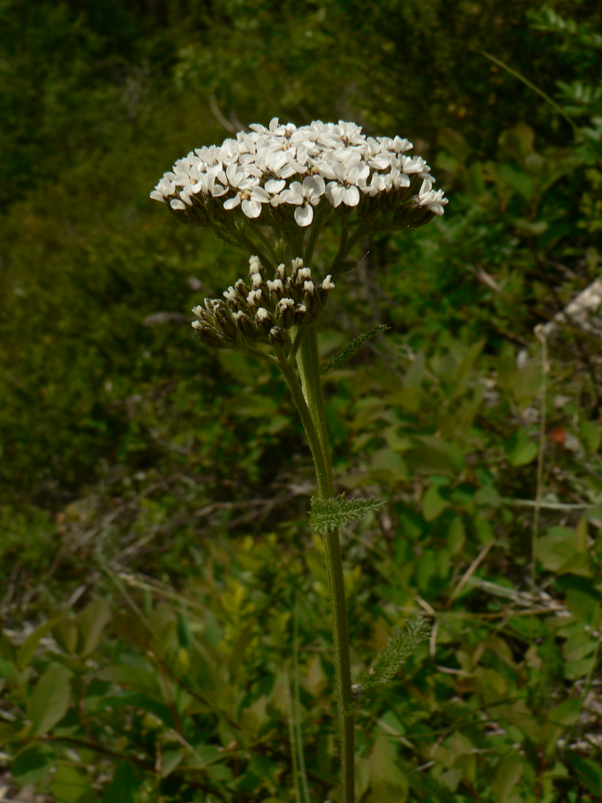 Common Yarrow, Milfoil